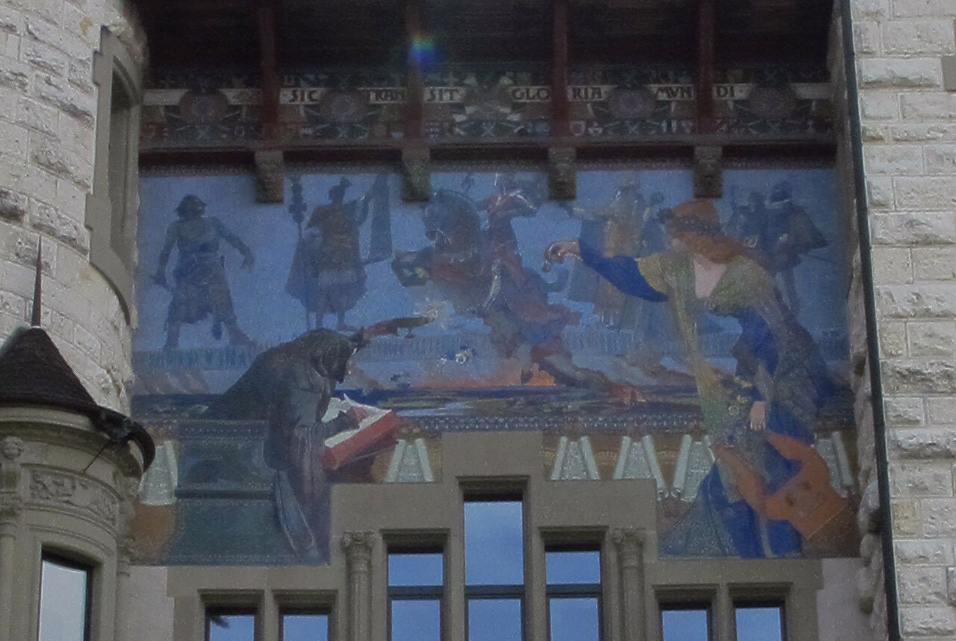 Bern Historical Museum; mosaic mural in glass by Léo-Paul Robert.